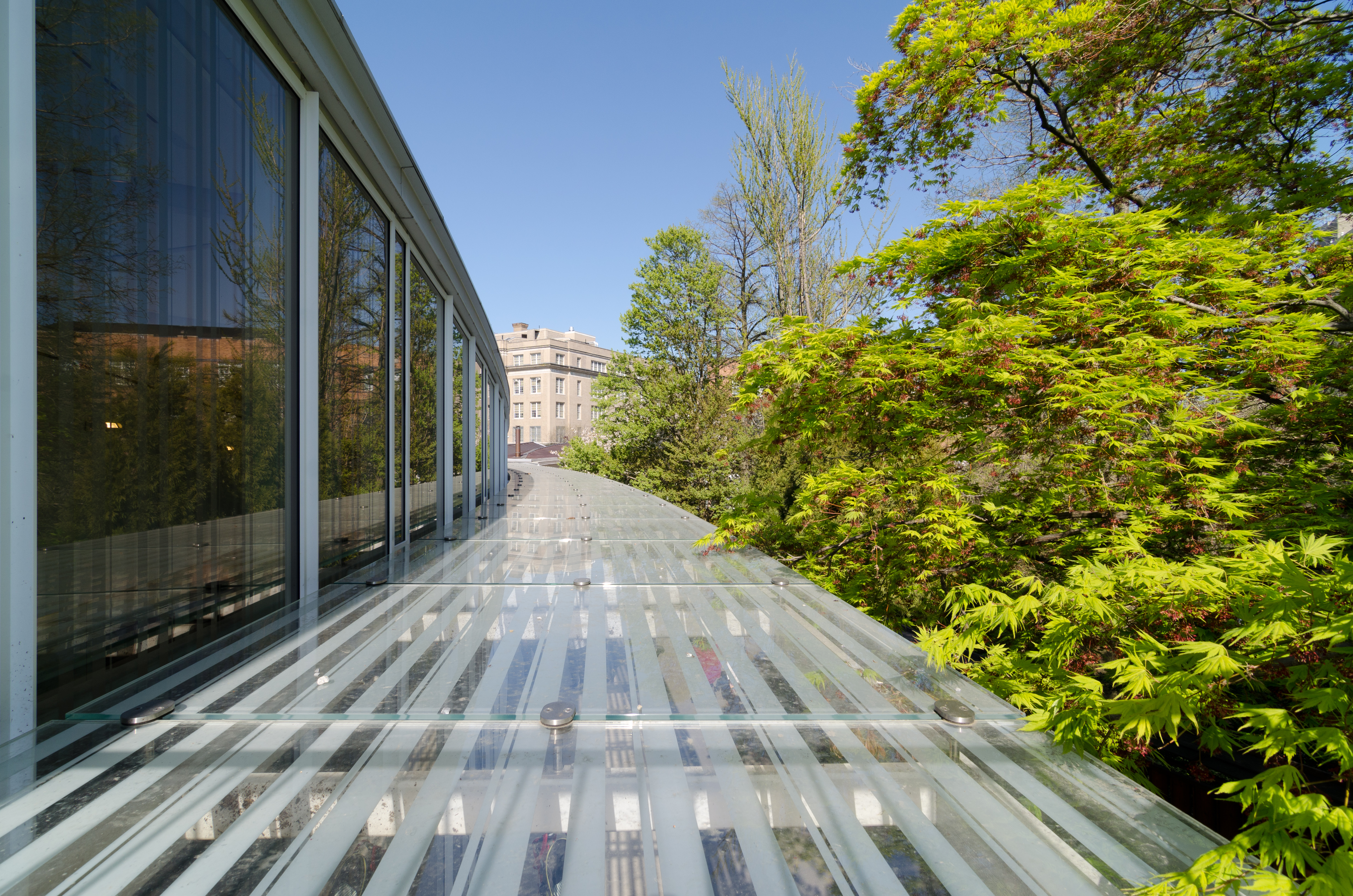 Deck above Visitor Center, Brooklyn Botanic Garden, Brooklyn, New York City.